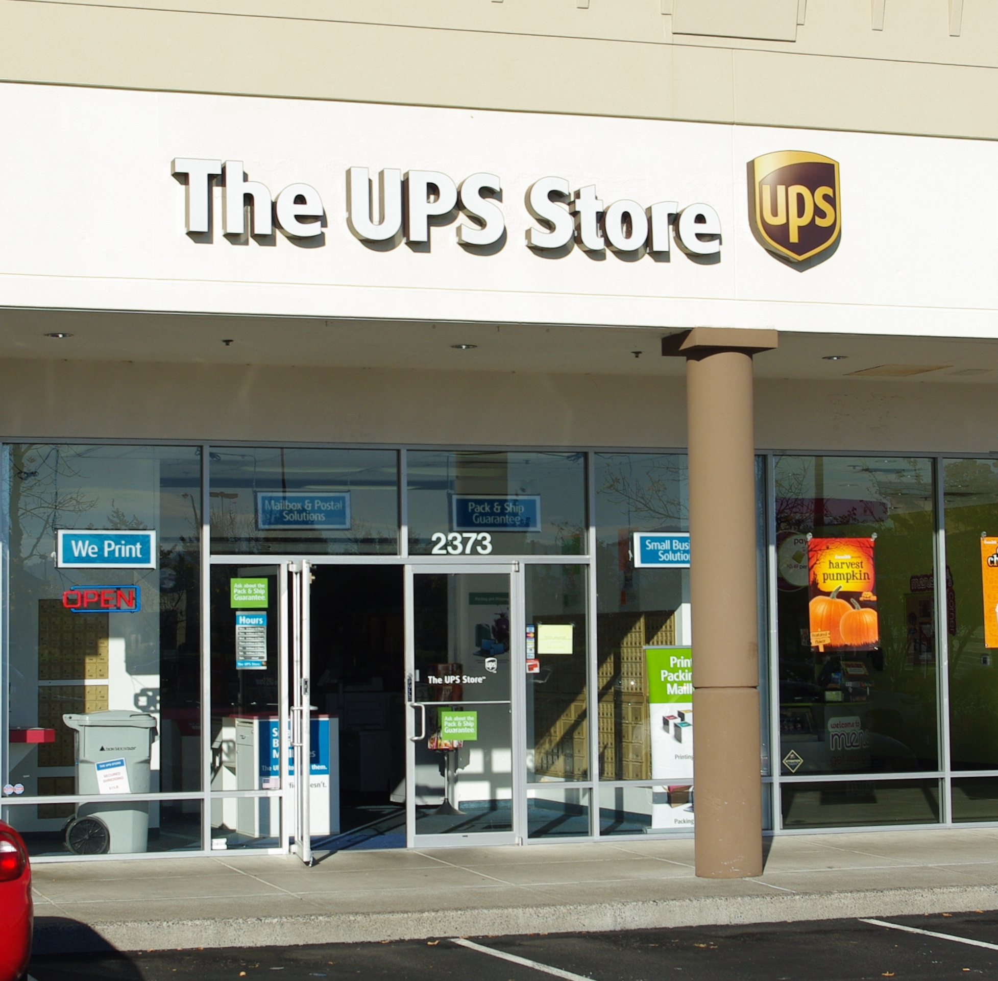 The UPS Store at Tanasbourne Village shopping center in Hillsboro, Oregon